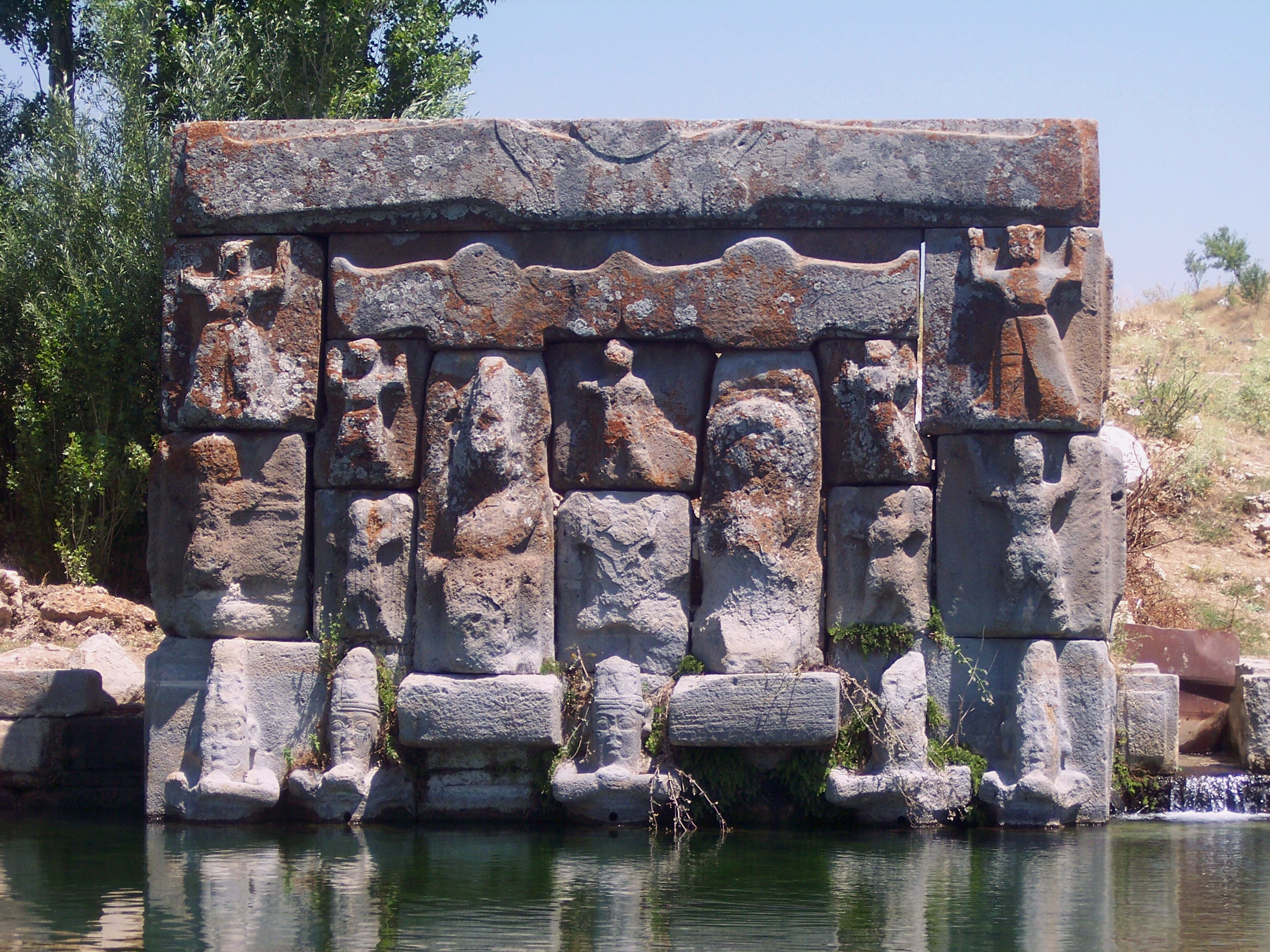 A rather close up photograph of Eflatunpinar's main part. Eflatunpinar is a Hittite site found in modern Beyşehir district of Konya/Turkey.